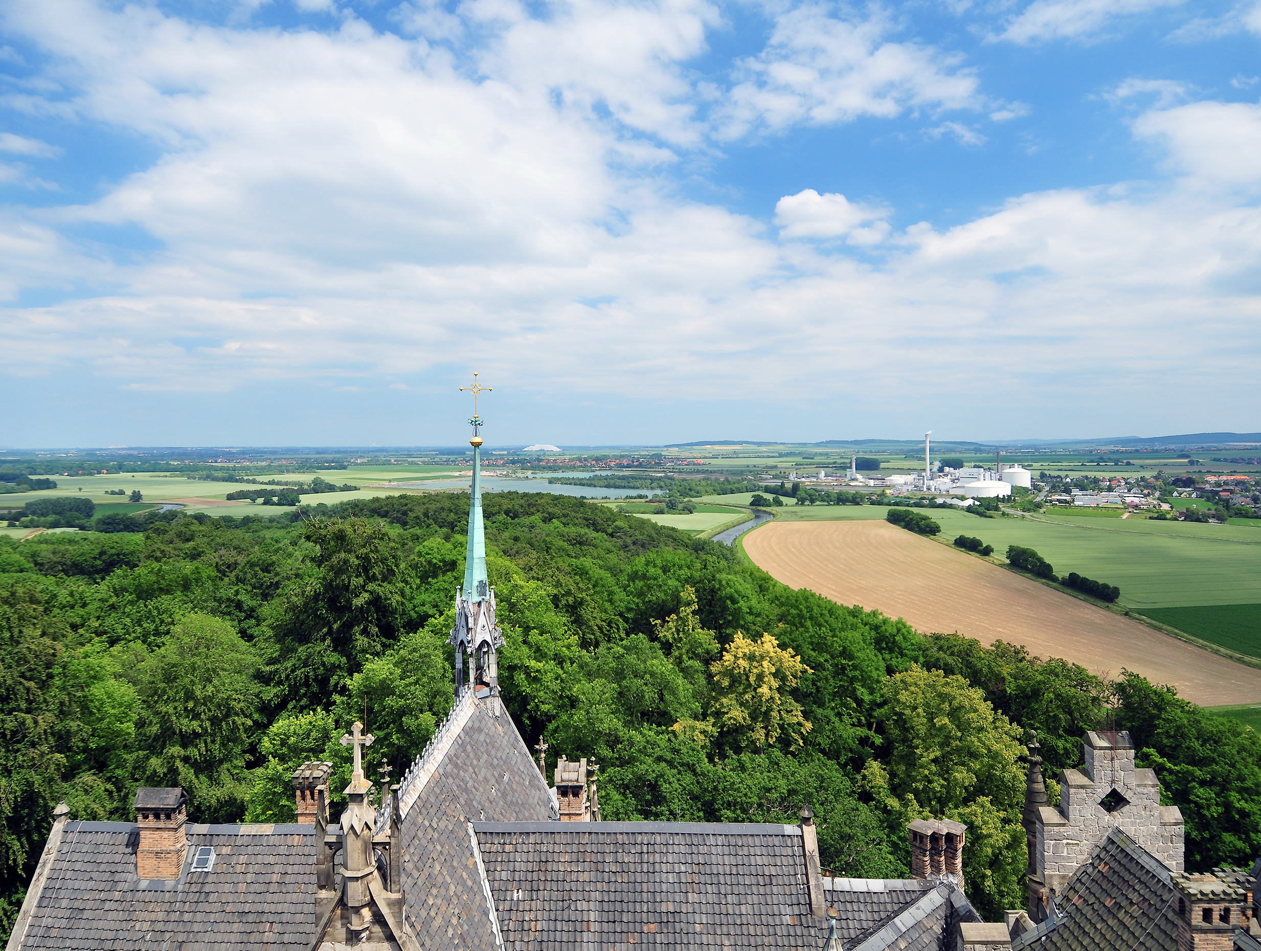 View by the Marienburg Castle onto river Leine, hill Calenberg, Calenberg Castle (not visible), Lauenstadt, Sarstedt (in the background), Giften, Barnten, Nordstemmen in Lower Saxony, Germany.